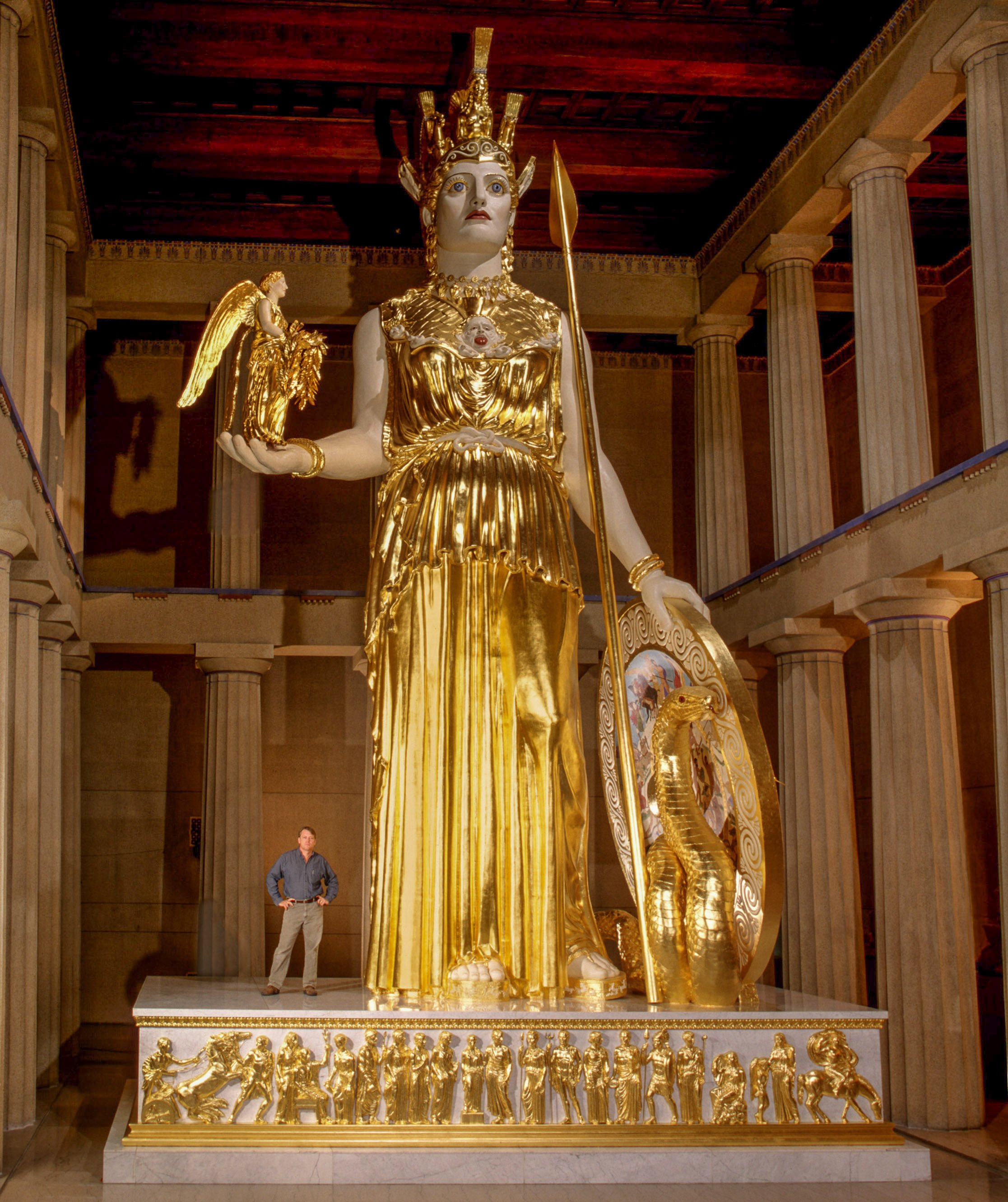 A recreation in modern materials of the lost colossal statue by Pheidias, Athena Parthenos by Alan LeQuire (1990) is housed in a full-scale replica of the Parthenon in Nashville’s Centennial Park. She is the largest indoor sculpture in the western world.